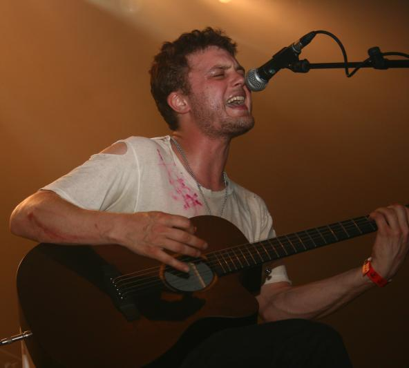 American actor and musician Michael Pitt performing in Barcelona